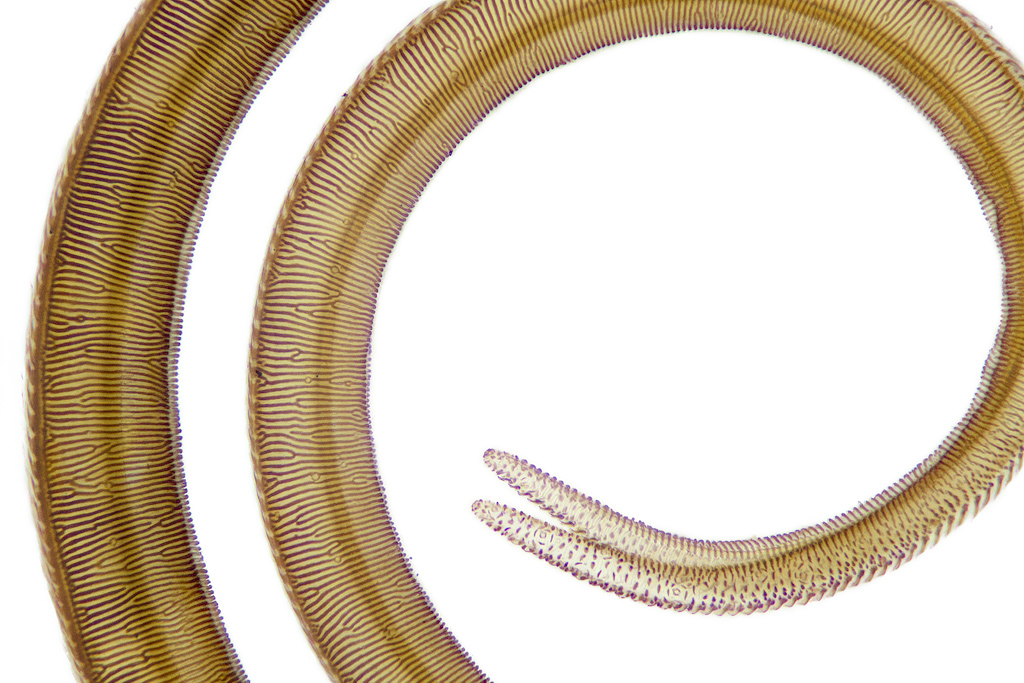 This is a butterfly proboscis (galea), which is often referred to as a "tongue". The proboscis is about 100um (0.1mm) thick. This was photographed using a DSLR attached to a compound microscope with a Nikon M Plan 40x/0.5 lens. Specimen from a commercially prepared slide. This is a z-stack of 28 images processed with Zerene Stacker.